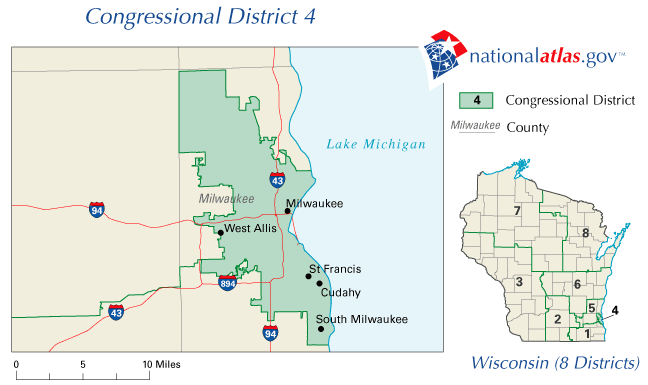 Map of Wisconsin's 4th congressional district. Downloaded from and converted to PNG.